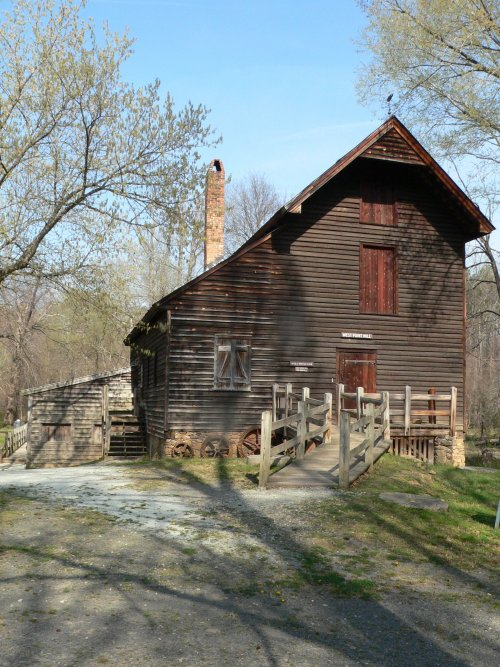 The West Point Mill at West Point on the Eno. Photo by .